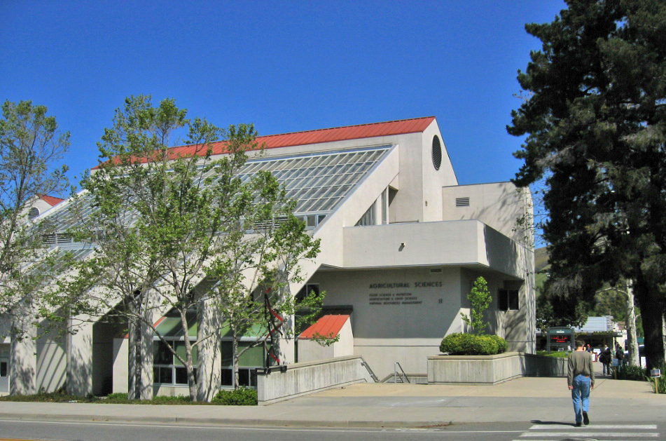 Cal Poly Agricultural Sciences Building Photo by: Samuel Li